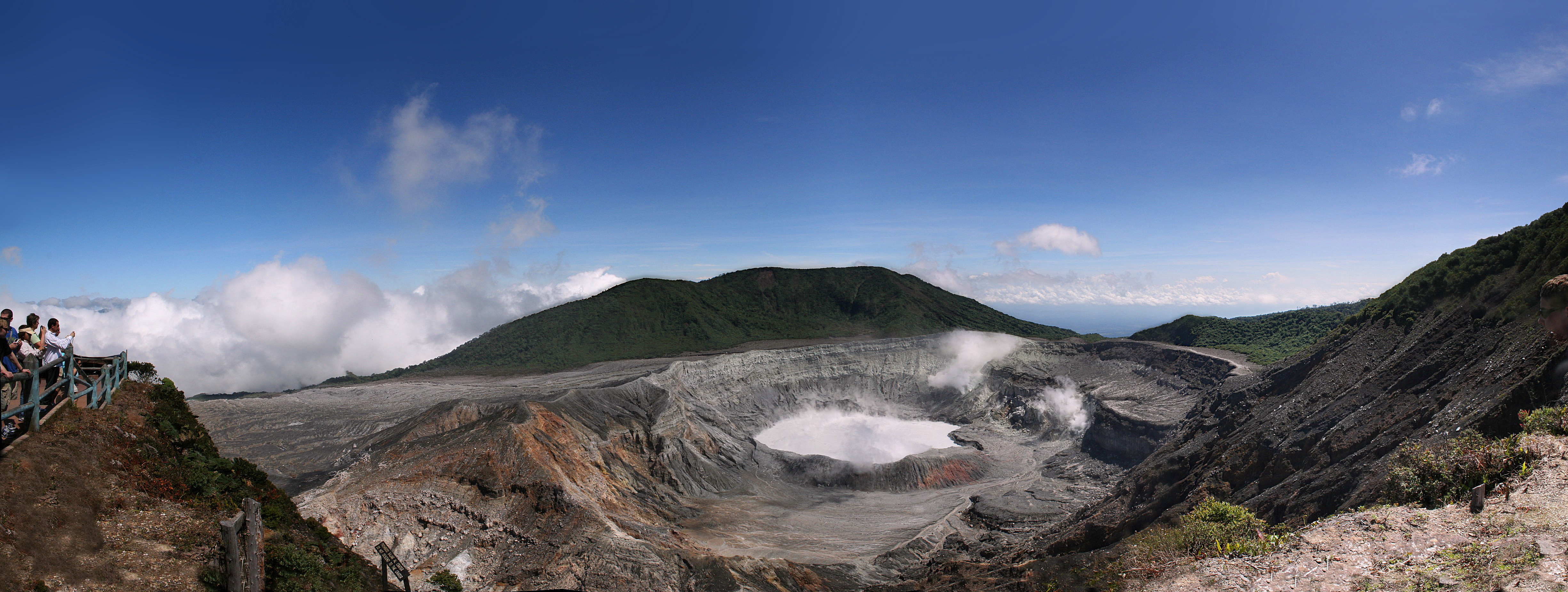 Panoramic view of the crater of the Poás volcano, in central Costa Rica.